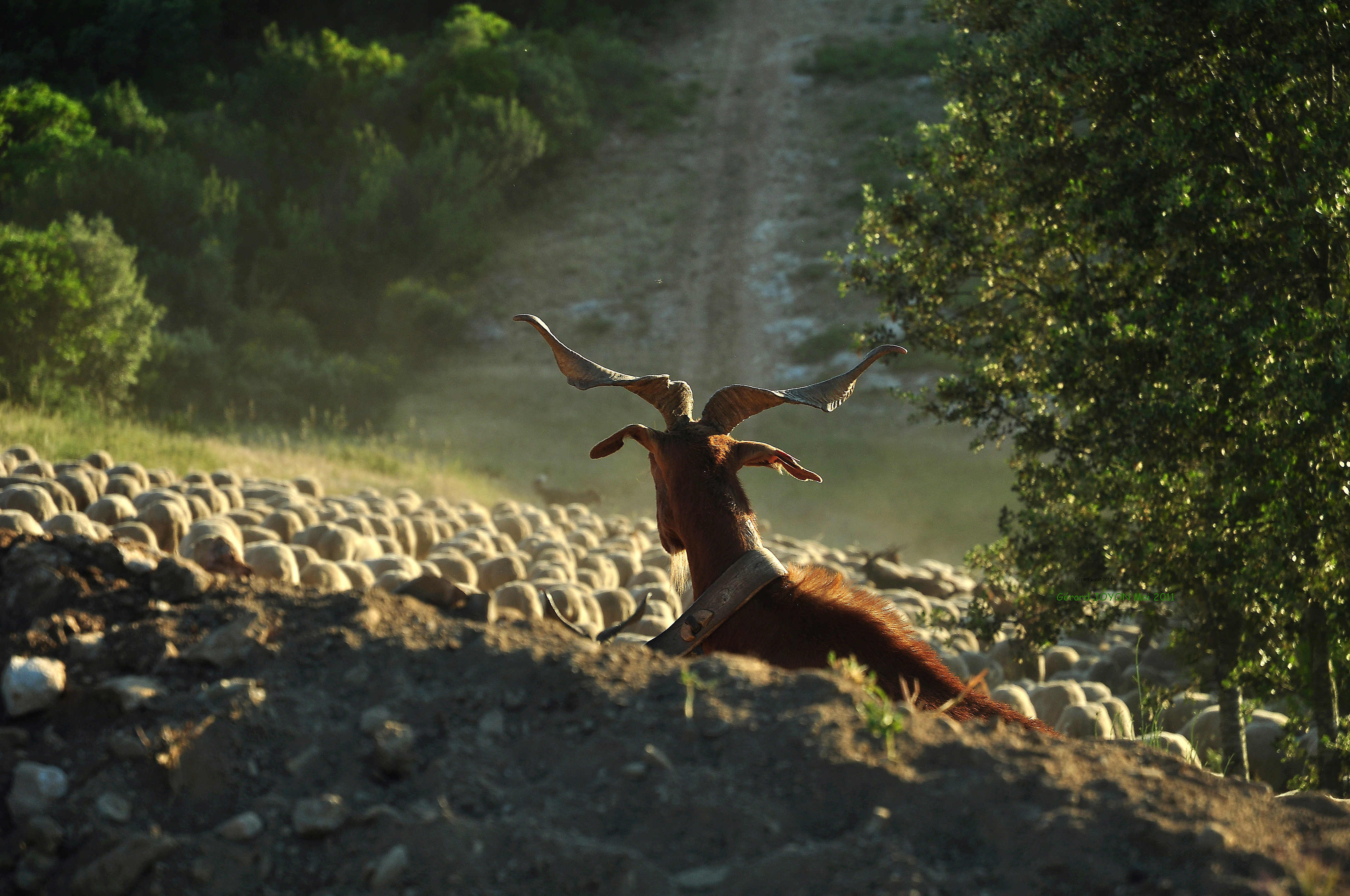 At the end of after noon(south) the herd established (constituted) by ovine races and by goats, returns towards its park to spend there at night. In the center, of back we see a billy goat of the race of the ROVE